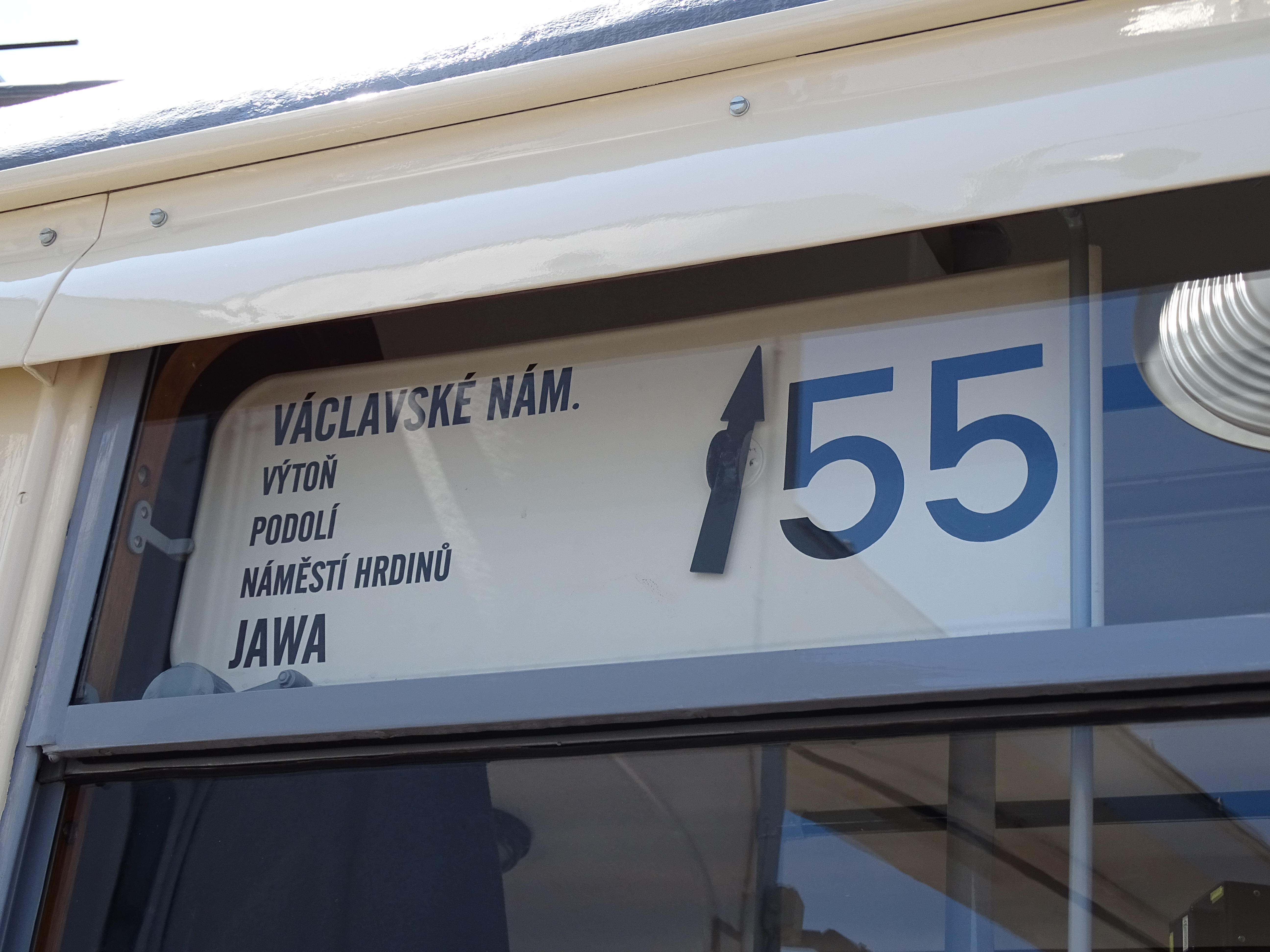 Prague-Michle, Czech Republic. Nad Vršovskou horou 80/1a, open doors day of the bus garage. Trolleybus Tatra T 400.